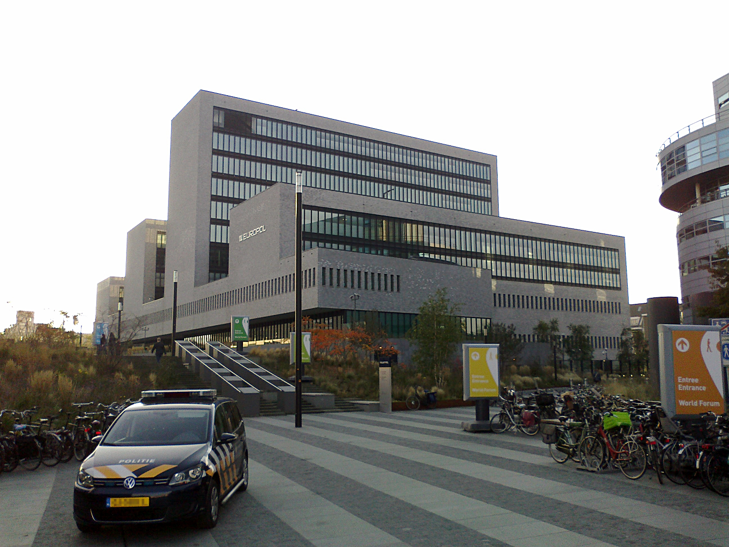 Europol building, The Hague, the Netherlands, is the headquarters of Europol, a European organization, in which national police forces cooperate, similar to Interpol.